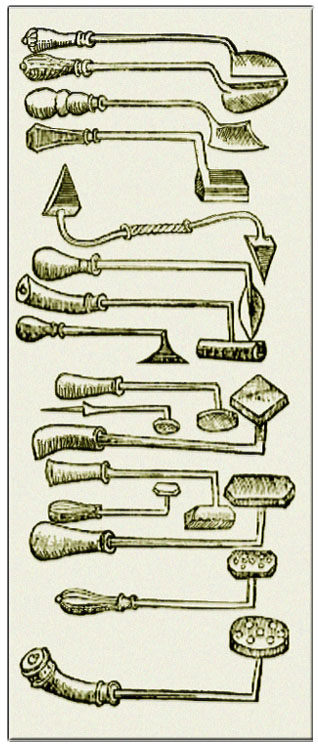 drawing the set of Ambroise Paré's cauterizing instruments, from original drawings founded in : The Works of that Famous Chirurgion Ambroise Paré (Ambrose Parey), London: 1624